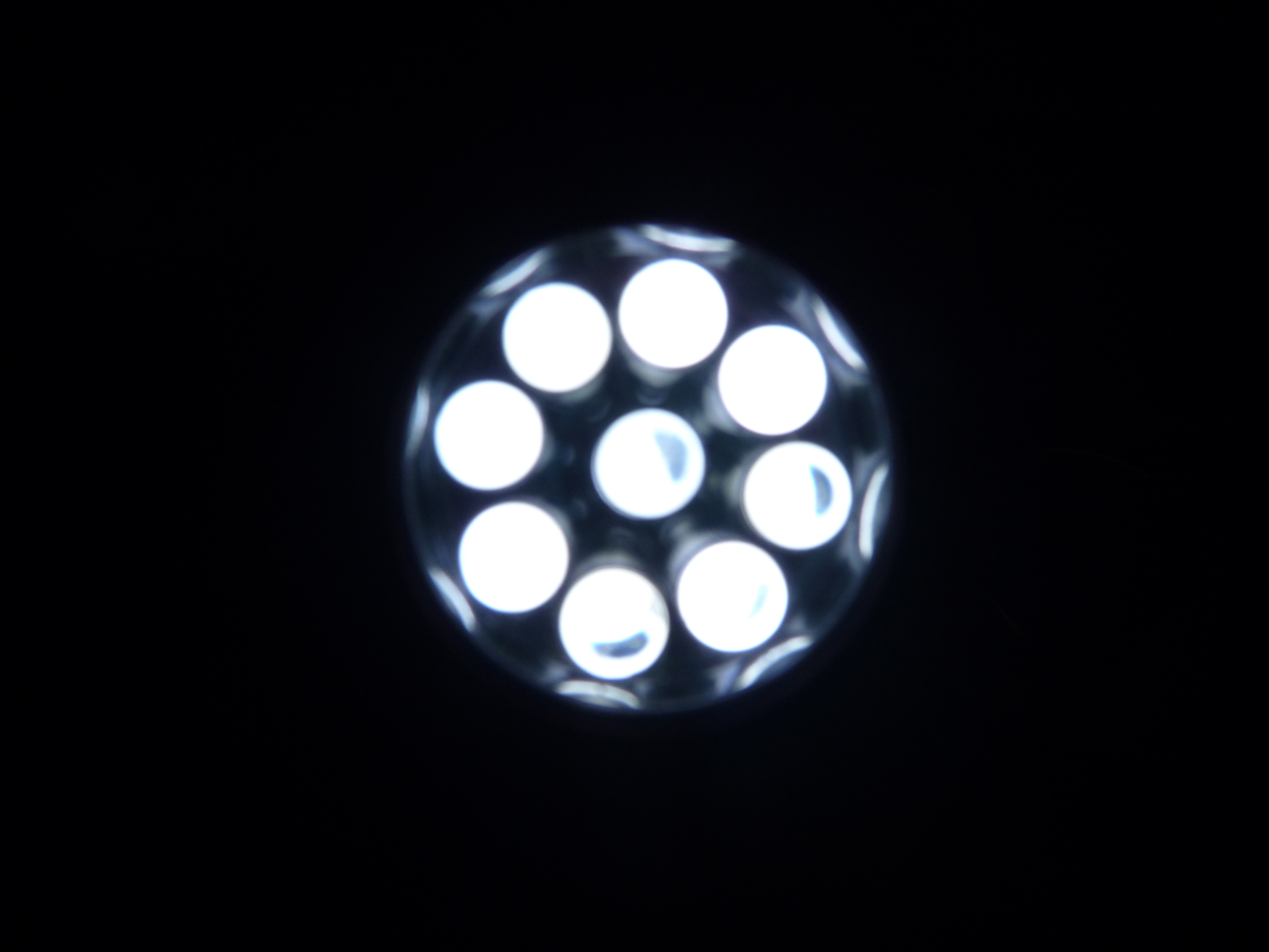 A flashlight taken with ISO 100.